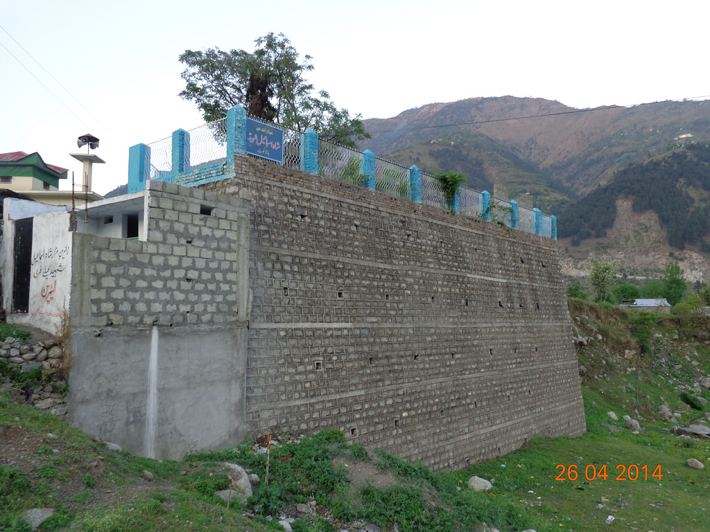 Photographer : Ahmad Abdullah Saqib